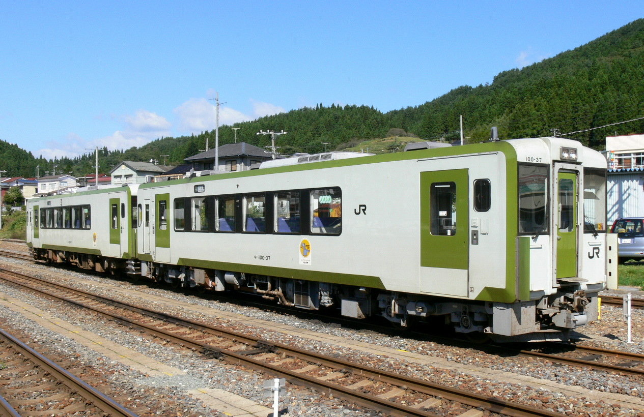 JR East KiHa 100-37 DMU at Kesennuma Station